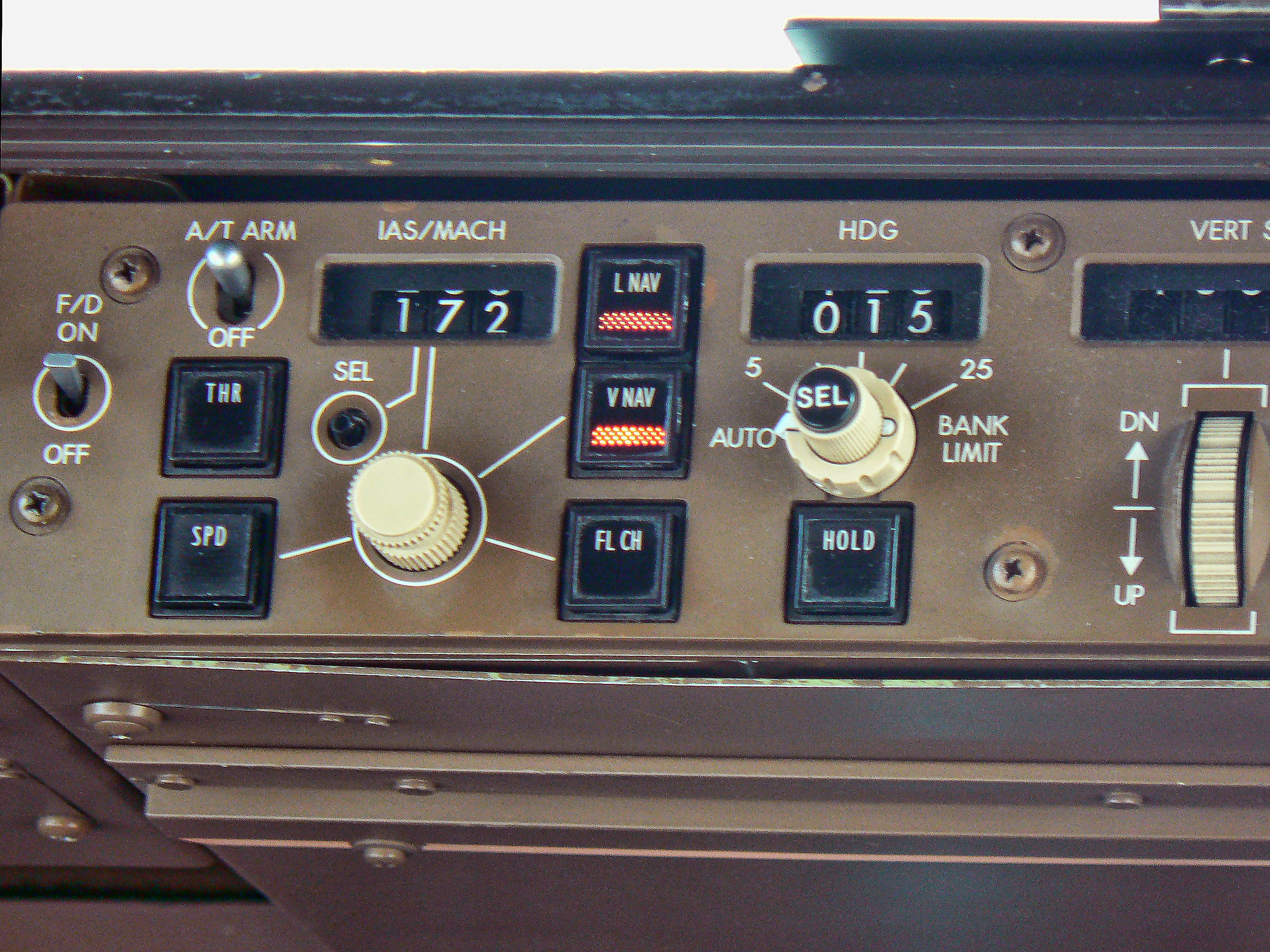 Boeing 747-412 Martinair Cargo PH-MPP